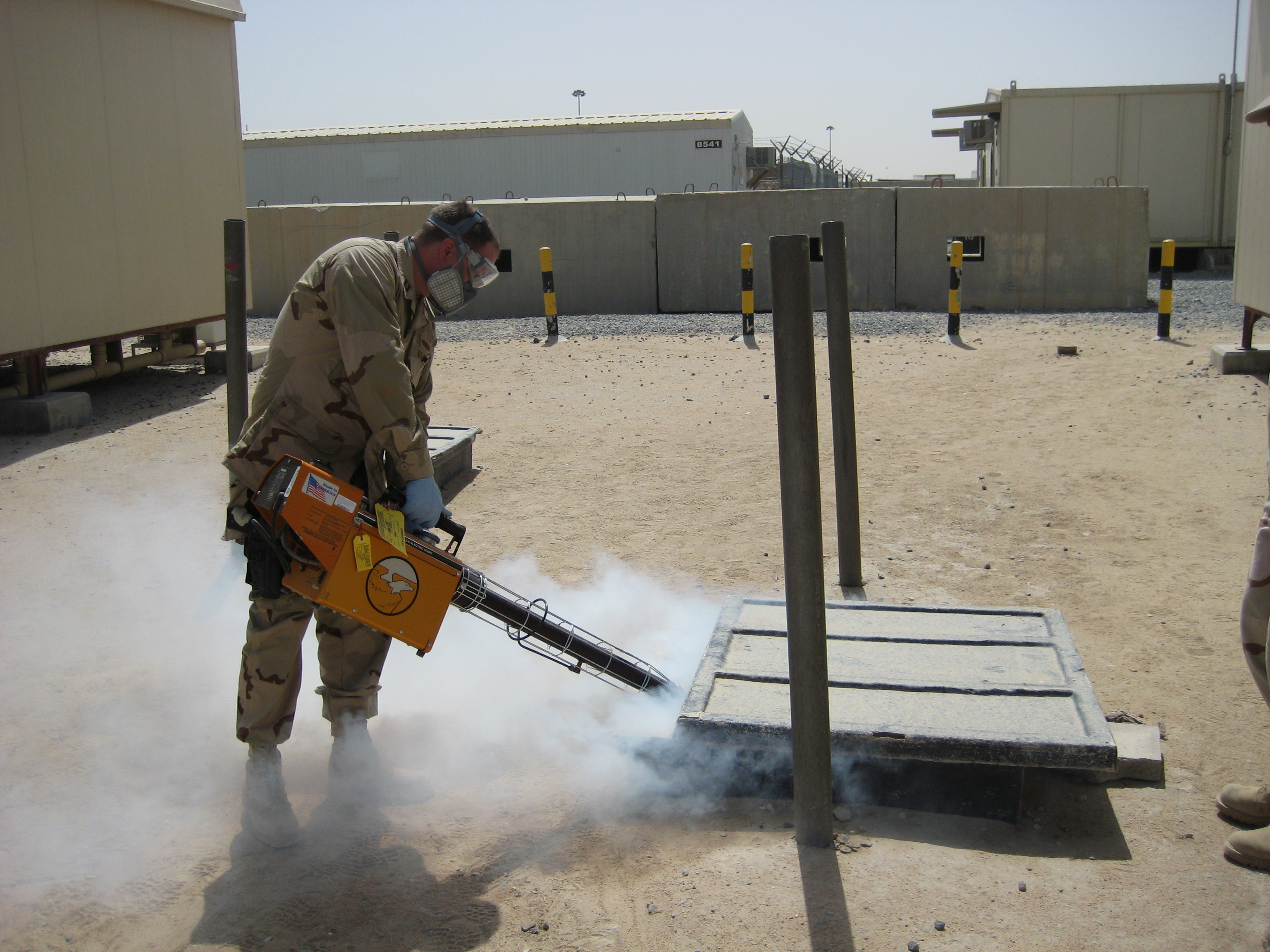 KUWAIT, (April 14, 2010) Lt. Michael Fisher, assigned to Forward Deployable Preventative Medicine Unit-North, sprays for mosquitoes in Camp Buehring Kuwait. The numbers of mosquitoes have decreased by half since aggressive mosquito control measures were put in place in early April. (U.S. Navy photo/Released)